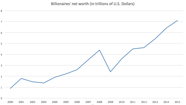 Billionaire's net worth 2000-2015